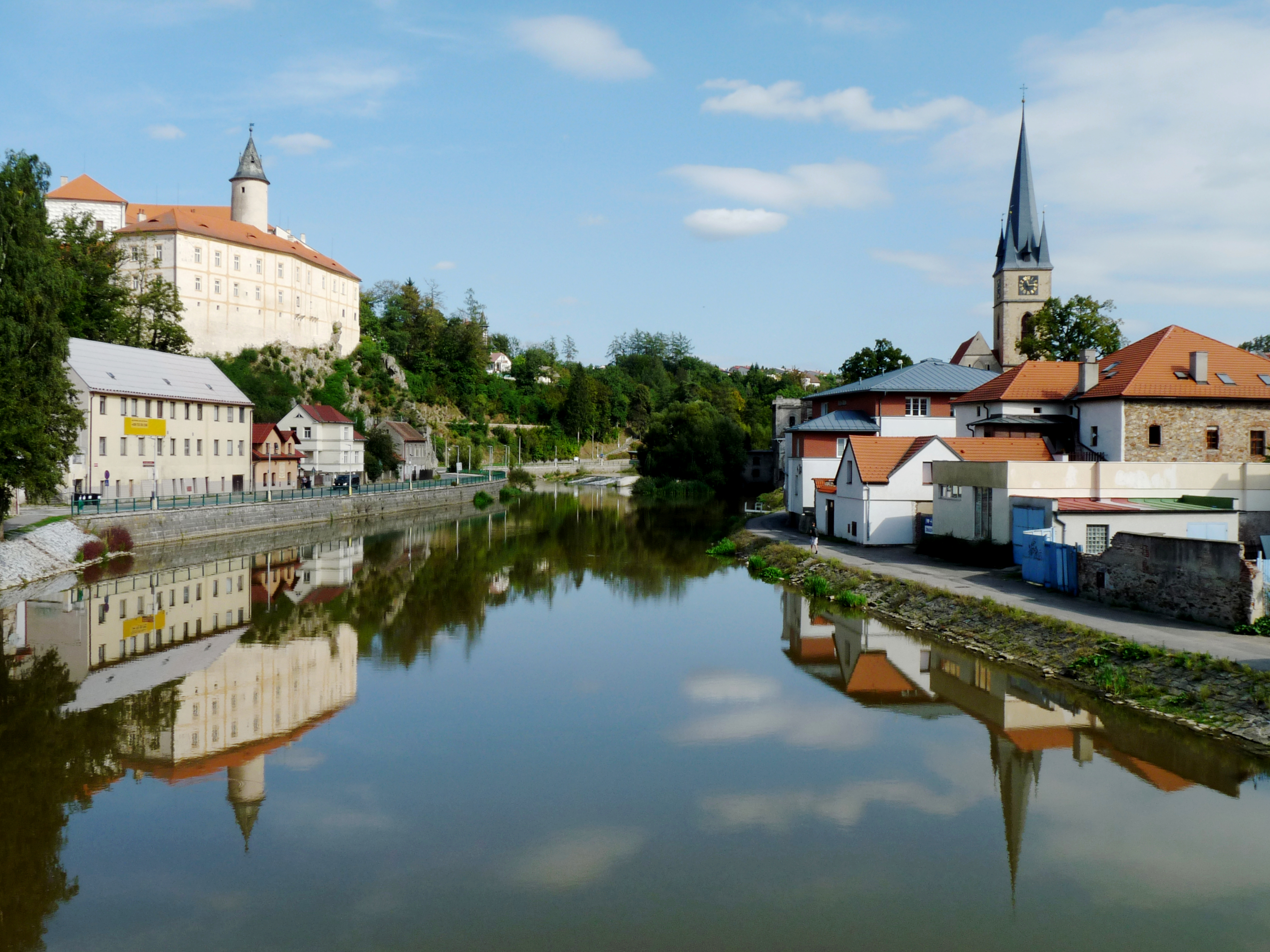 Church of Saints Peter and Paul and the castle reflected on the Sázava River in Ledeč nad Sázavou, Vysočina Region, Czech Republic